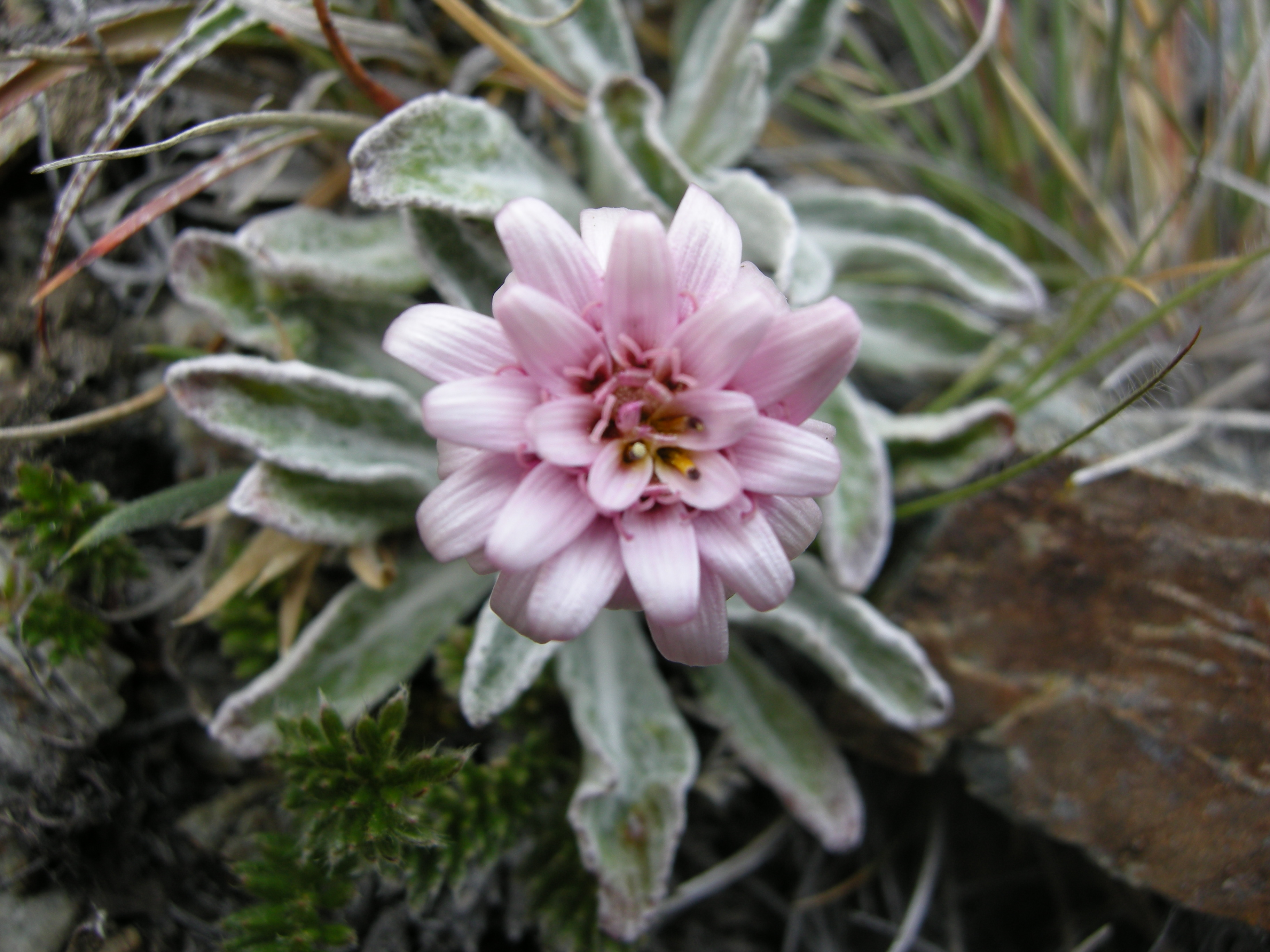 Top view of the inflorescence of Leucheria hahnii. Picture taken in Belgrano peninsula, in the Perito Moreno national park (Santa Cruz provincia, Argentina).